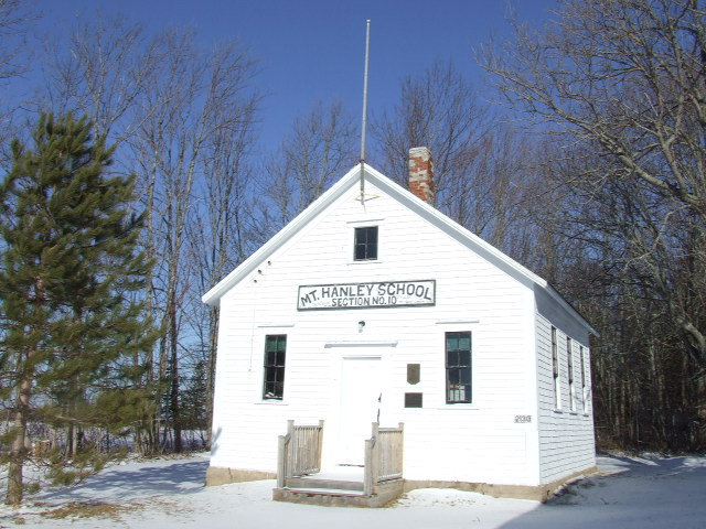 Mount Hanley Schoolhouse Museum, Annapolis County, Nova Scotia, a museum and one room school house attended by Joshua Slocum